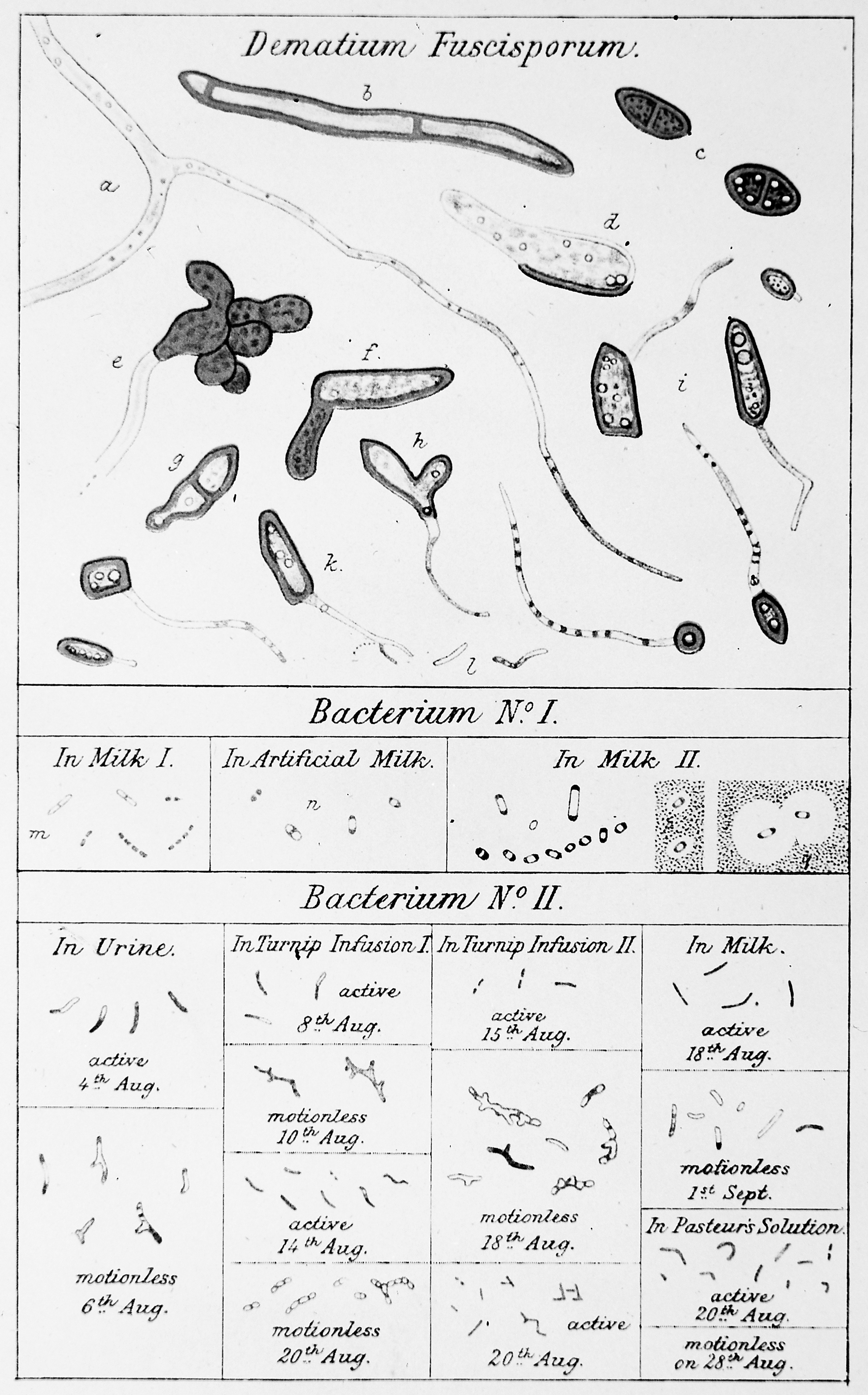 Germ Theory of Putrefaction General Collections Keywords: Bacteriology; germ theory; Joseph Lister